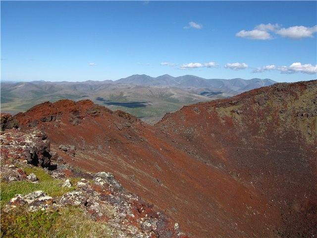 Anyuy volcano in Bilibinsky District, Chukotka Autonomous Okrug, Russian Federation This image is related to the protected area of Russia number 8710017